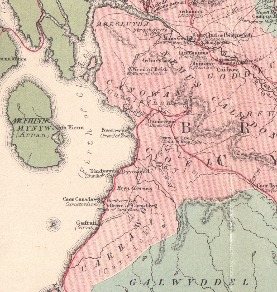 A map of Ayrshire indicating King Arthur related locations